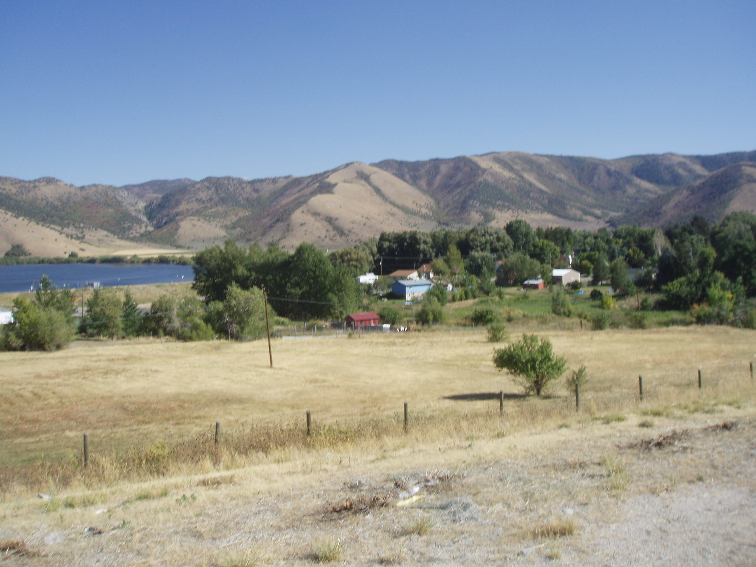 The town of Mantua, Utah, United States, as seen from U.S. Route 91